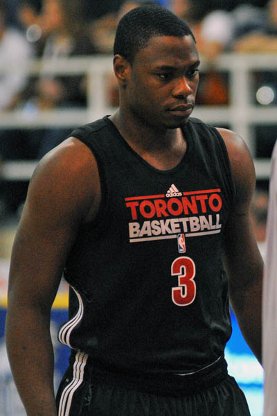 Photo of basketball player, Marcus Banks.